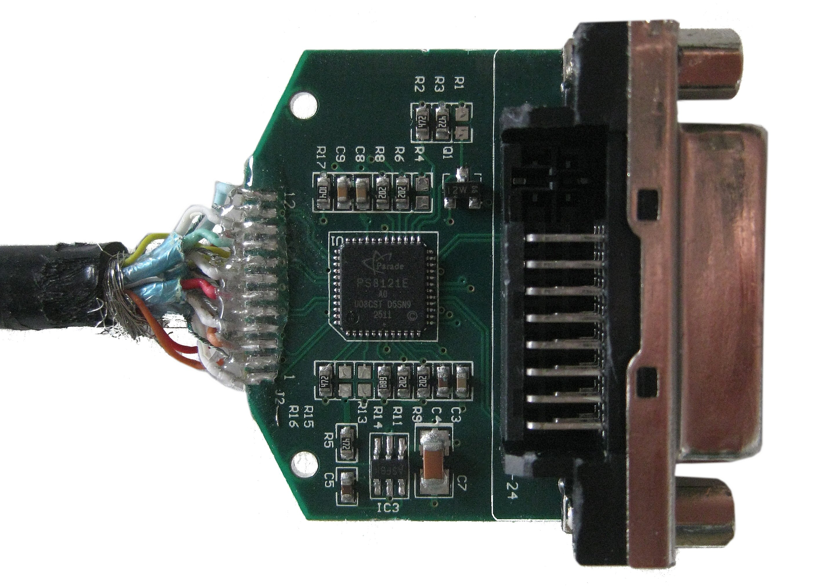 Picture of a (dual-mode) DisplayPort to DVI converter after unmounting its enclosure.